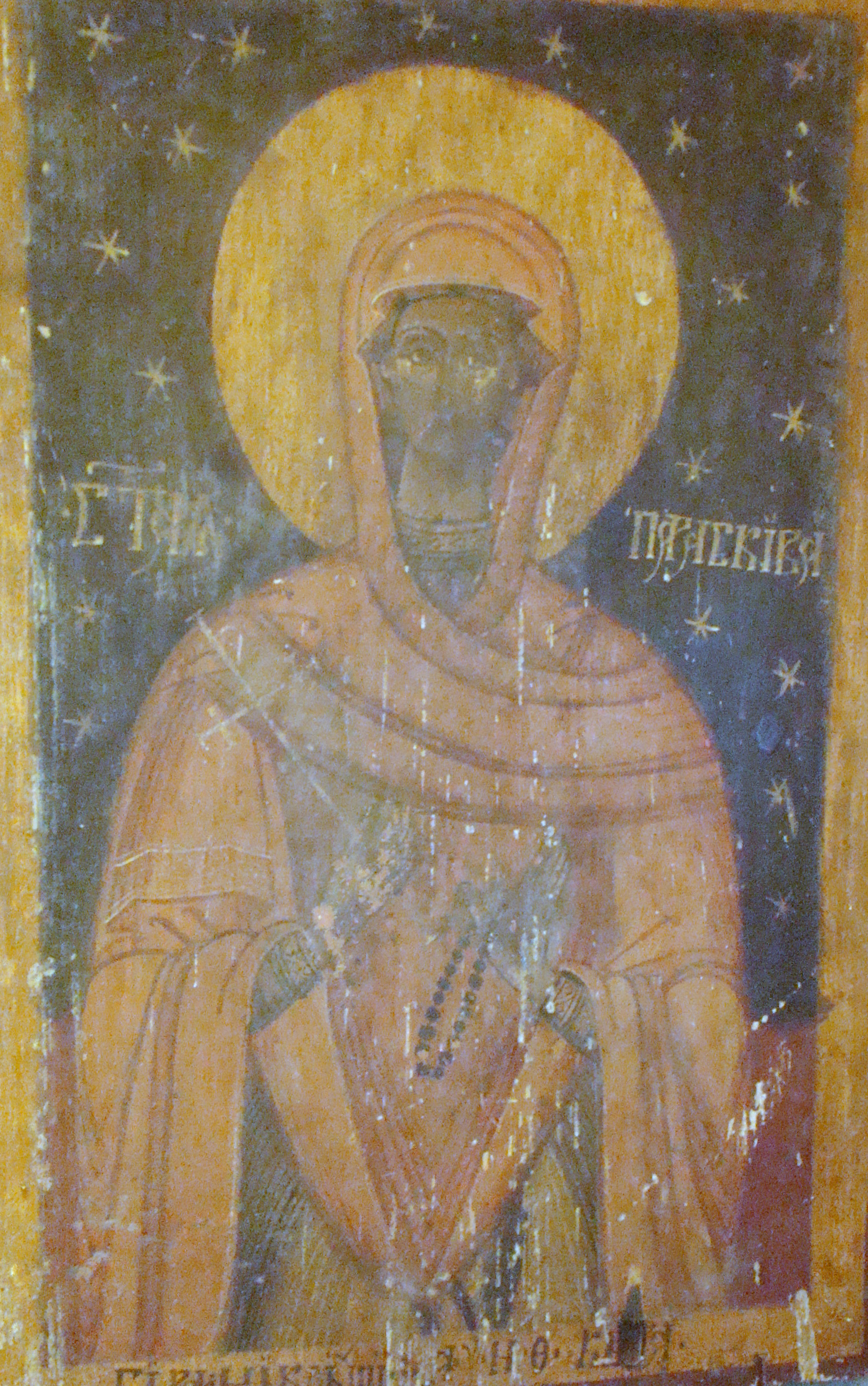 Wooden church in Chergheș, Hunedoara county, Romania